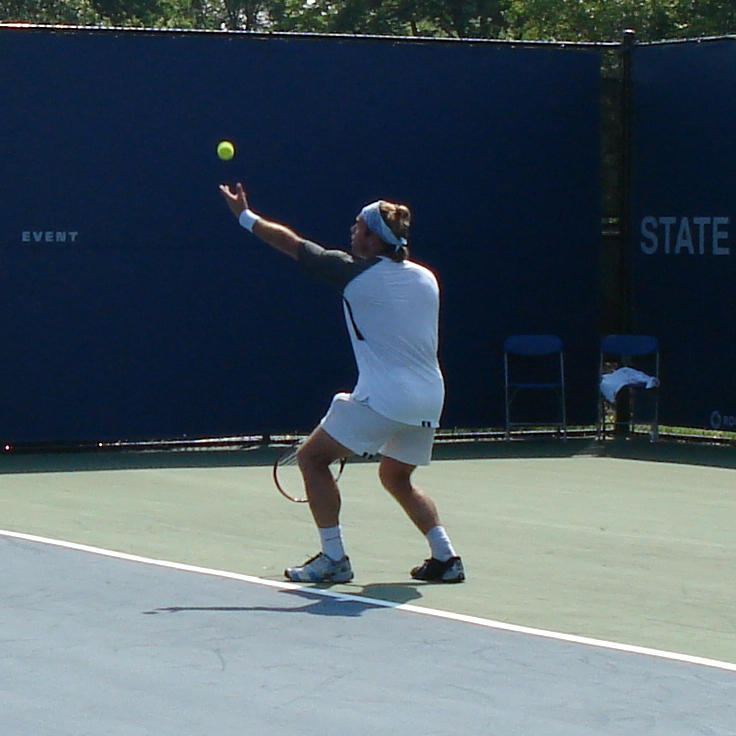 Swiss tennis player George Bastl, taken by myself on Saturday, July 19th, in Toronto, Ontario.